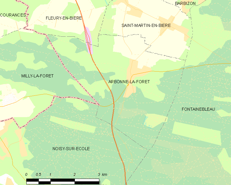 Map of French municipality Arbonne-la-Forêt